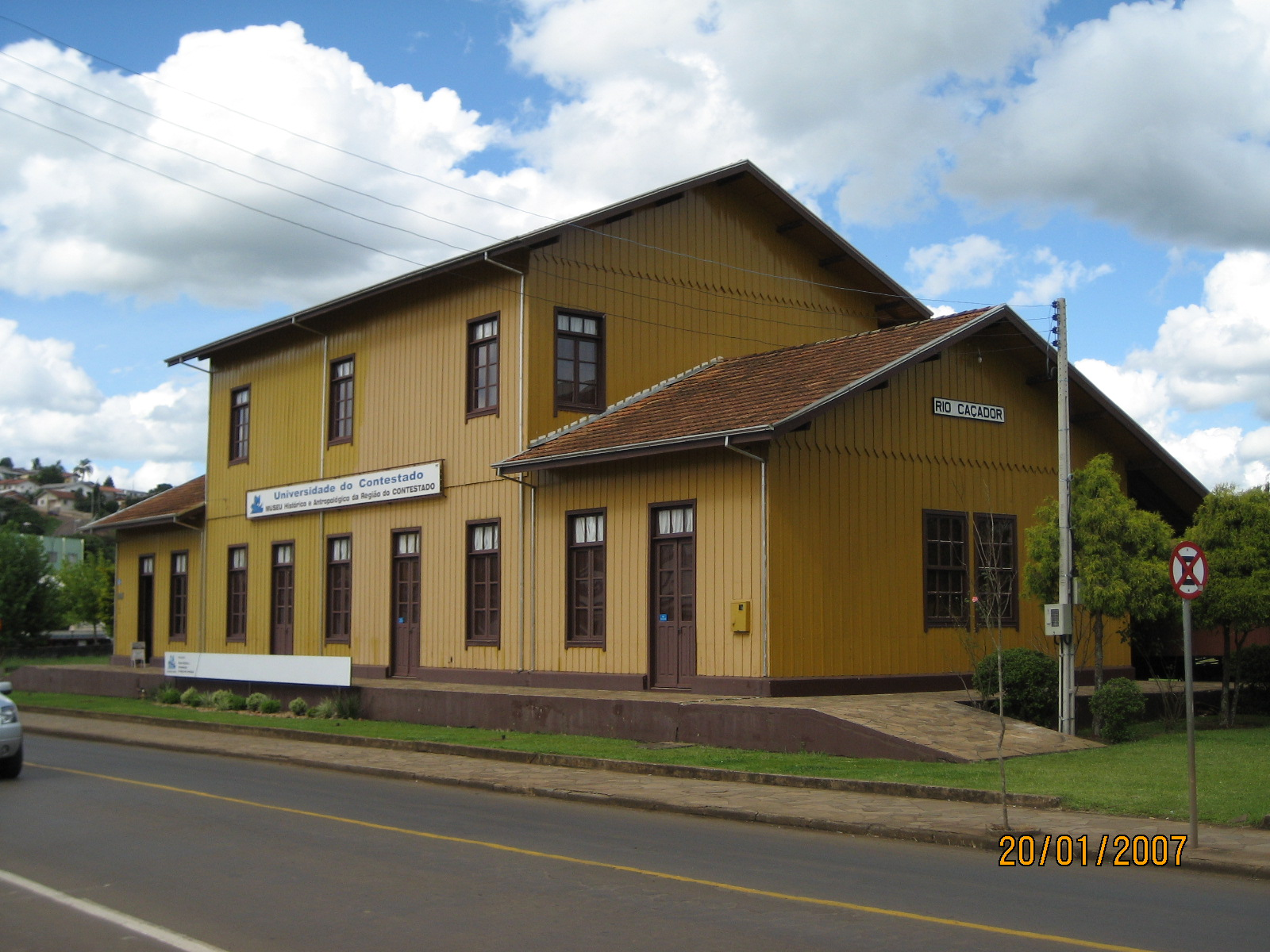 Contestado Museum - Caçador - SC - Brazil Author: Edson L. Pedrassani Source: Own work 2007-01-20